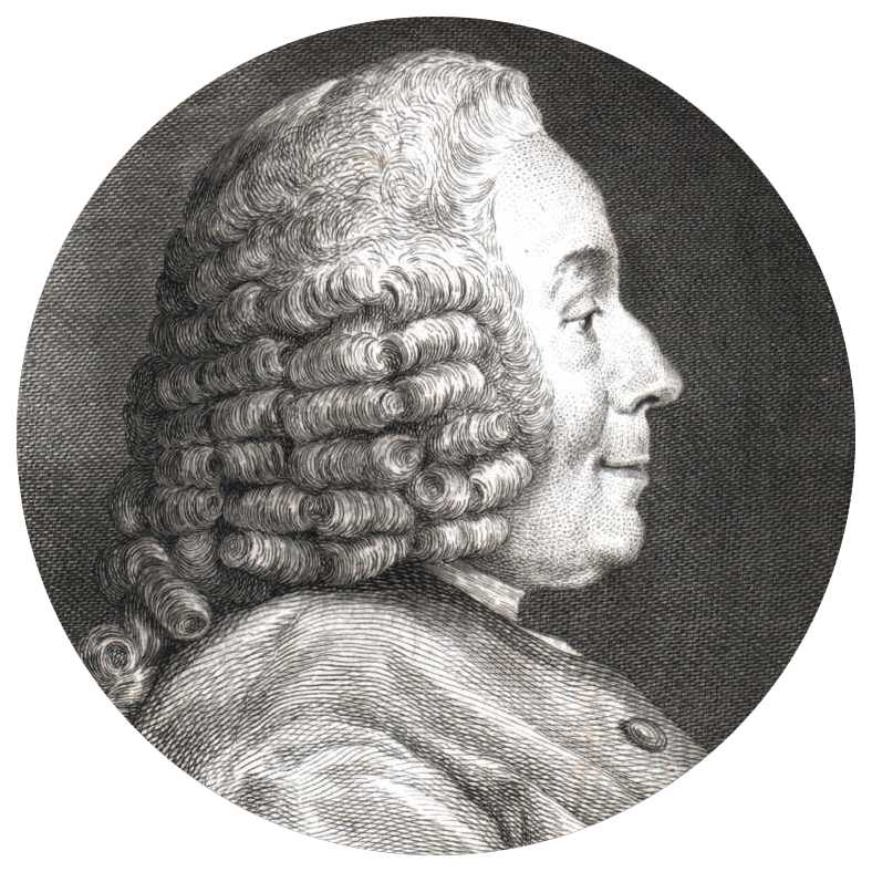 Portrait of French astronomer and geophysicist Jean-Jacques Dortous de Mairan (1678-1771)